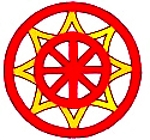 Dažbogovi vnuci